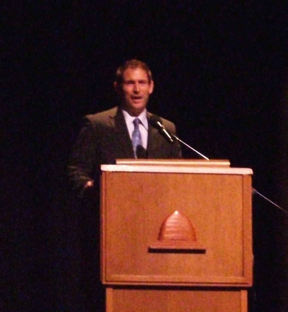 Steve Young (American football) speaking to Young Single Adults at a YSA Conference at the Oakland Interstake center.